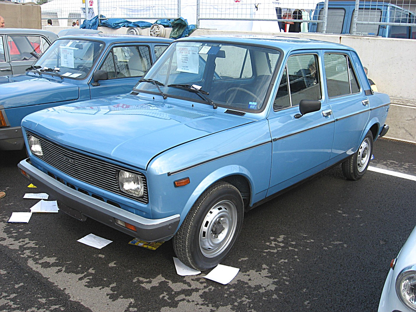 Subject:Fiat 128 Mk2 Date:September 14th, 2008 Event: Mostra Scambio by the Imola Circuit Place/Country: Imola (BO), Italy I release all rights in the public domain.